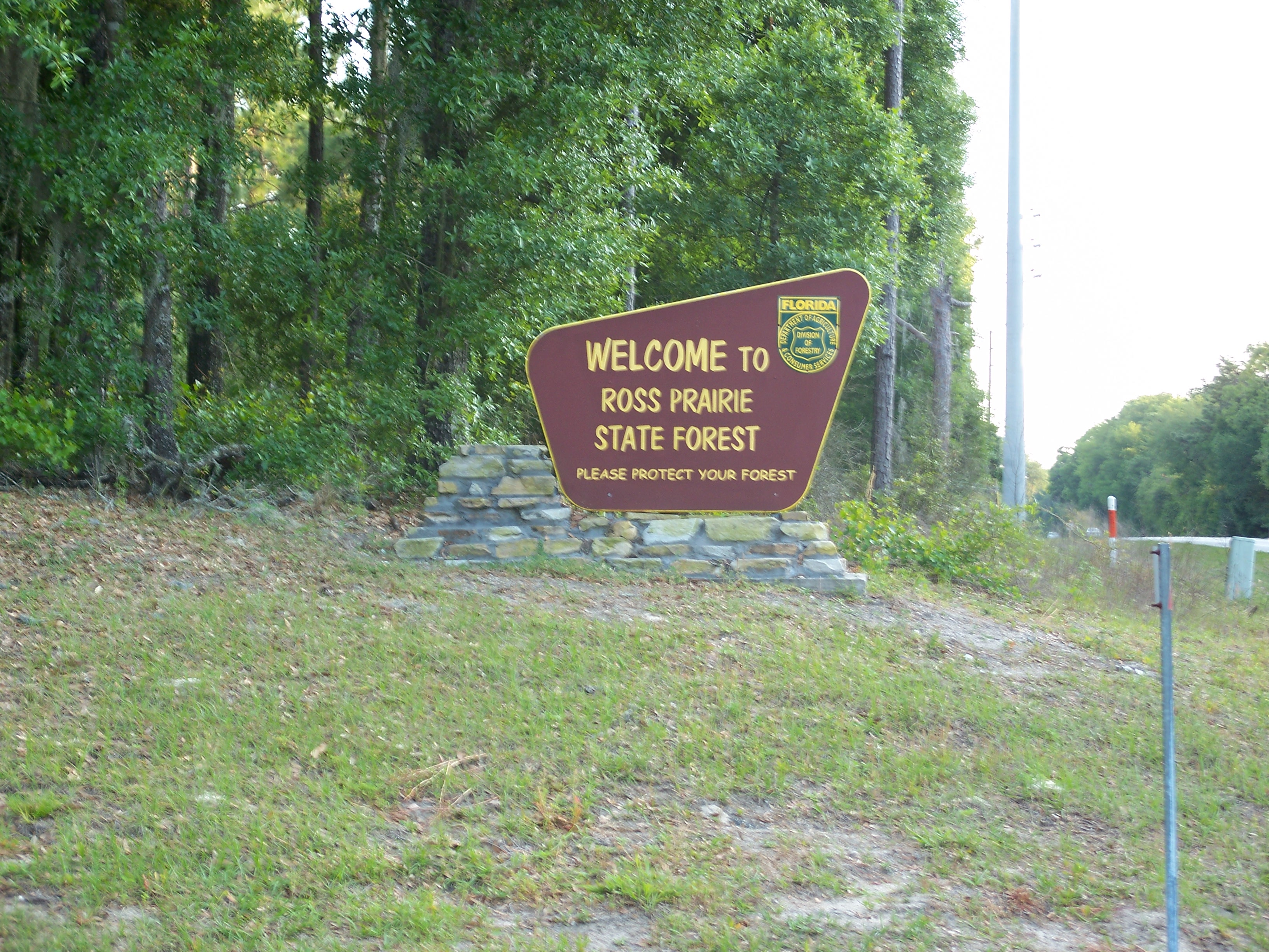 Sign off Florida State Road 200 for Ross Prairie State Forest, near Ocala, Florida